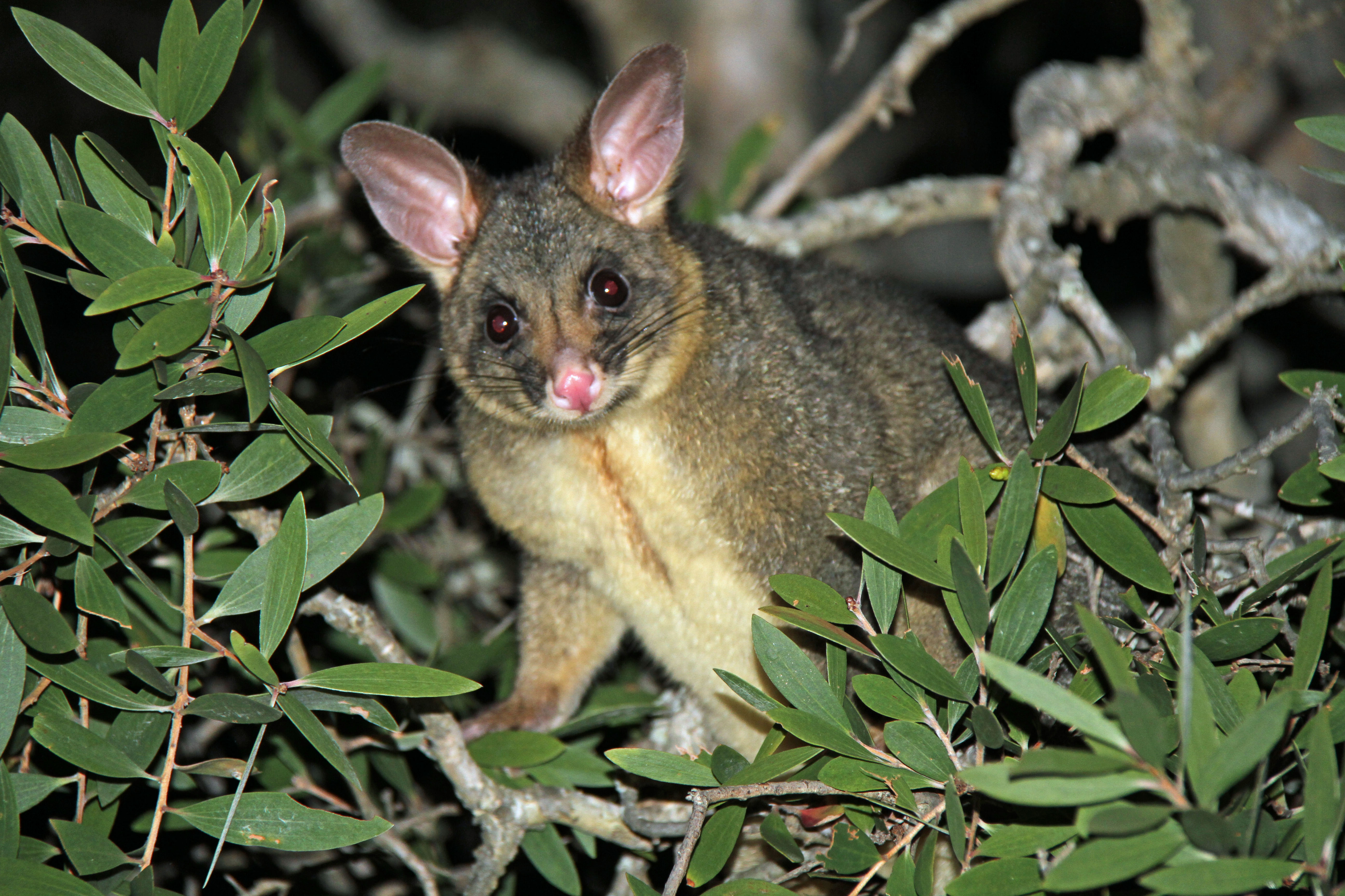 Common Brushtail Possum